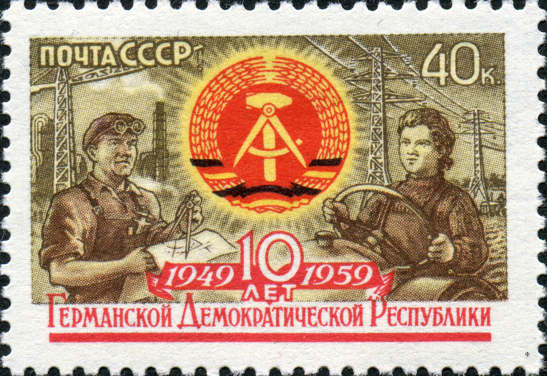 Sowjetische Briefmarke: 1949–1959, 10 Jahre Deutsche Demokratische Repulik